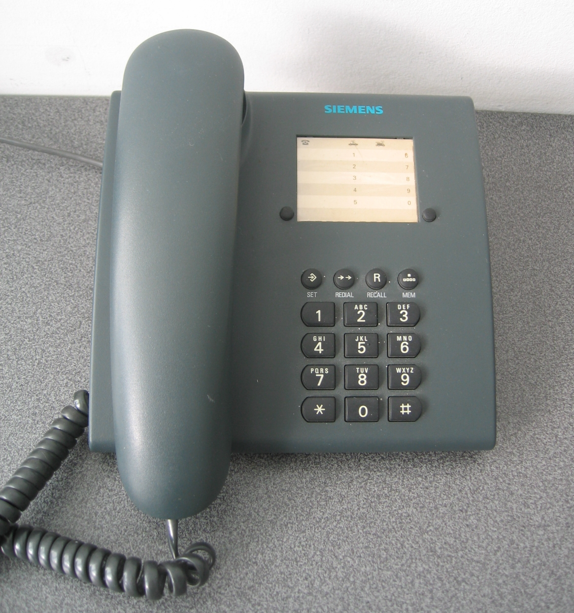 Siemens Euroset 805 telephone This phone type's design is a bit notorious in that people may put the handset down, but the actual button press to make the phone available to callers may not happen. Author: Mardus